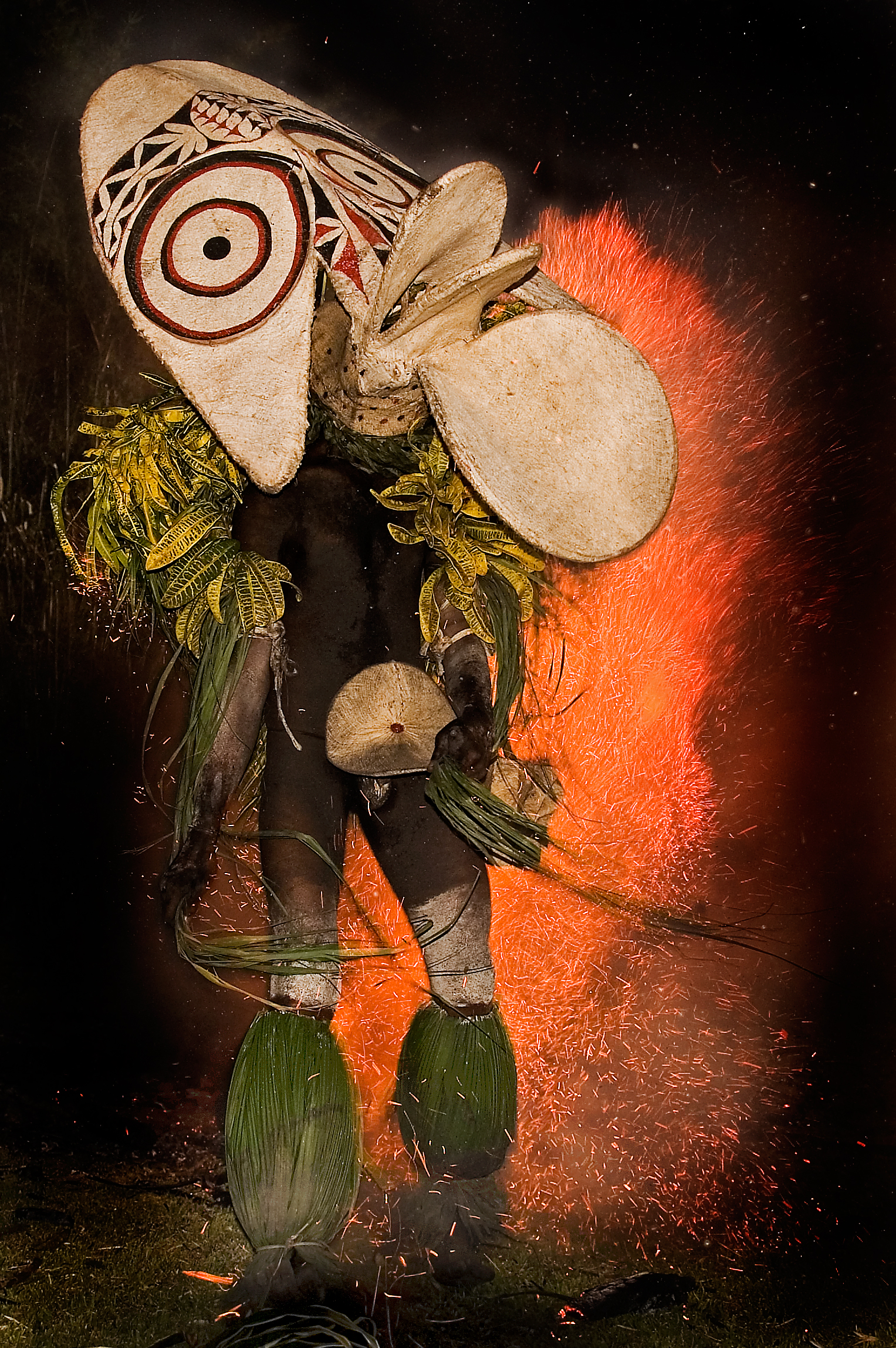 Firedancers of the Baining people on the Gazelle Peninsula of New Britain in Papua New Guinea (2008). They live in the Baining Mountains and may have inhabited this area for thousands of years. The Baining are somewhat of an of an oddity amongst Melanesian cultures because they create art forms that have a very ephemeral existence. The dance mask in the picture is laboriously made from bark cloth, bamboo and leaves and used just once for the firedance ceremony before being thrown away or destroyed. The origin of these firedance ceremonies was to celebrate the birth of new children, the commencement of harvests, and also a way of remembering the dead. The Baining firedance is also a right of passage for initiating young men into adulthood. It's a totally male event and traditionally the Baining women and children do not take part in it or even watch the firedance.